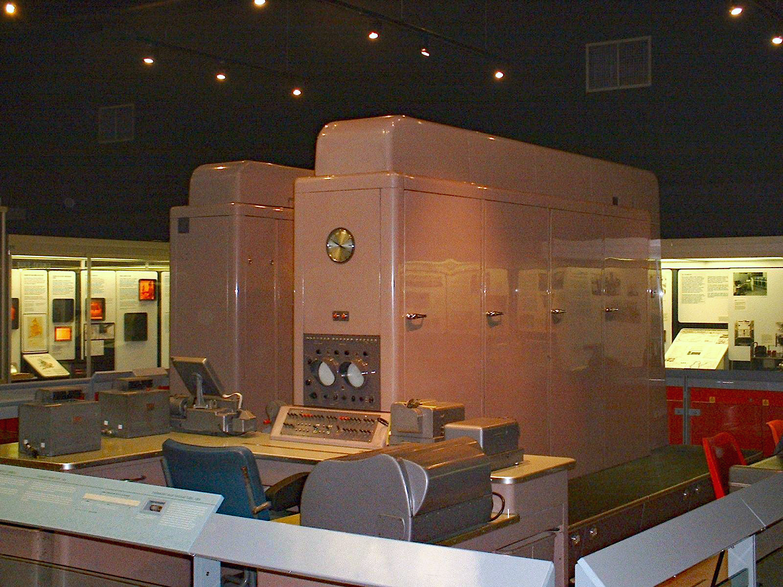 A picture of the Pegasus computer system, originally installed in University College London's basement, showing the signature Ferranti clock on the front panel, the four lacquered cabinet doors (most Pegasus machines had only three cabinets, but this particular unit had expansion space for a tape unit interface, which was never installed). In the foreground to the left of the machine are two 5-hole punched tape readers, and to the right a tape punch, which feeds a line printer. In the background to the left behind the machine sits its power supply cabinet. The cabinet was built by Rolls Royce hence the car door handles. A photograph taken by the uploader, of a Pegasus in the Science Museum, UK